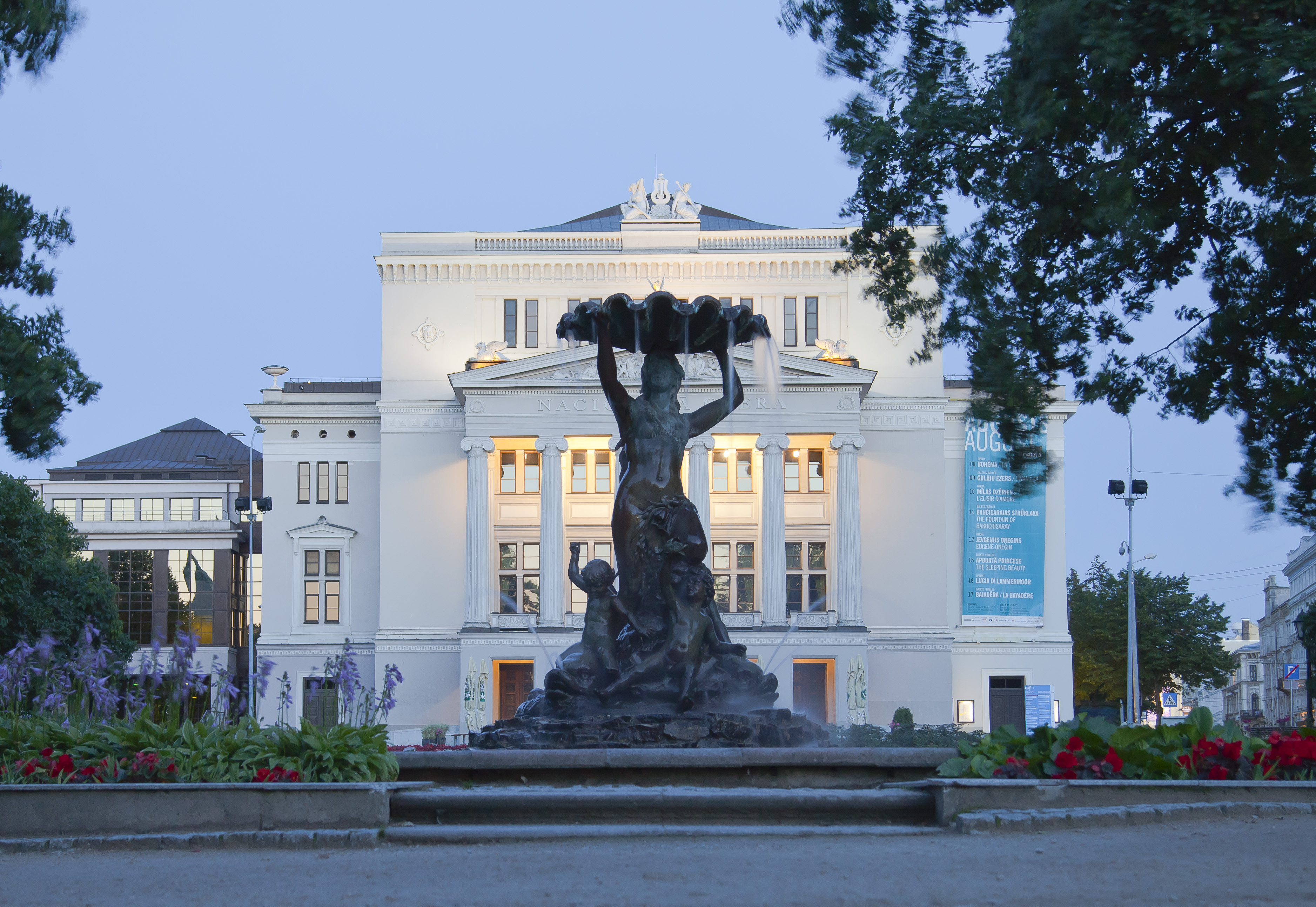 Fountine "Nymph" by the Latvian National Opera, Riga, Latvia. Established in 1888.